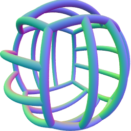 illustration of Th symmetry, made by me in Povray.